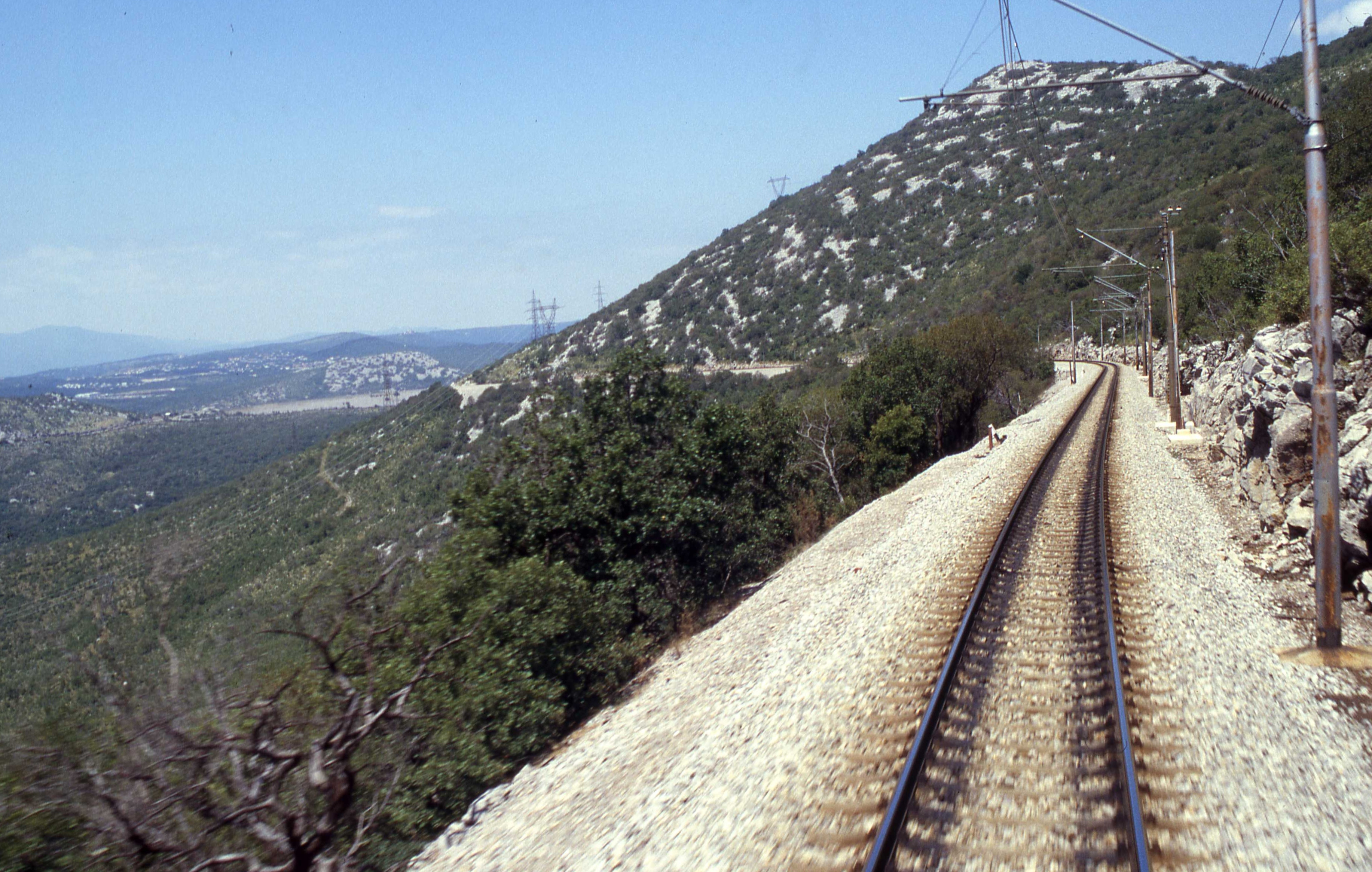 The long descent to Rijeka